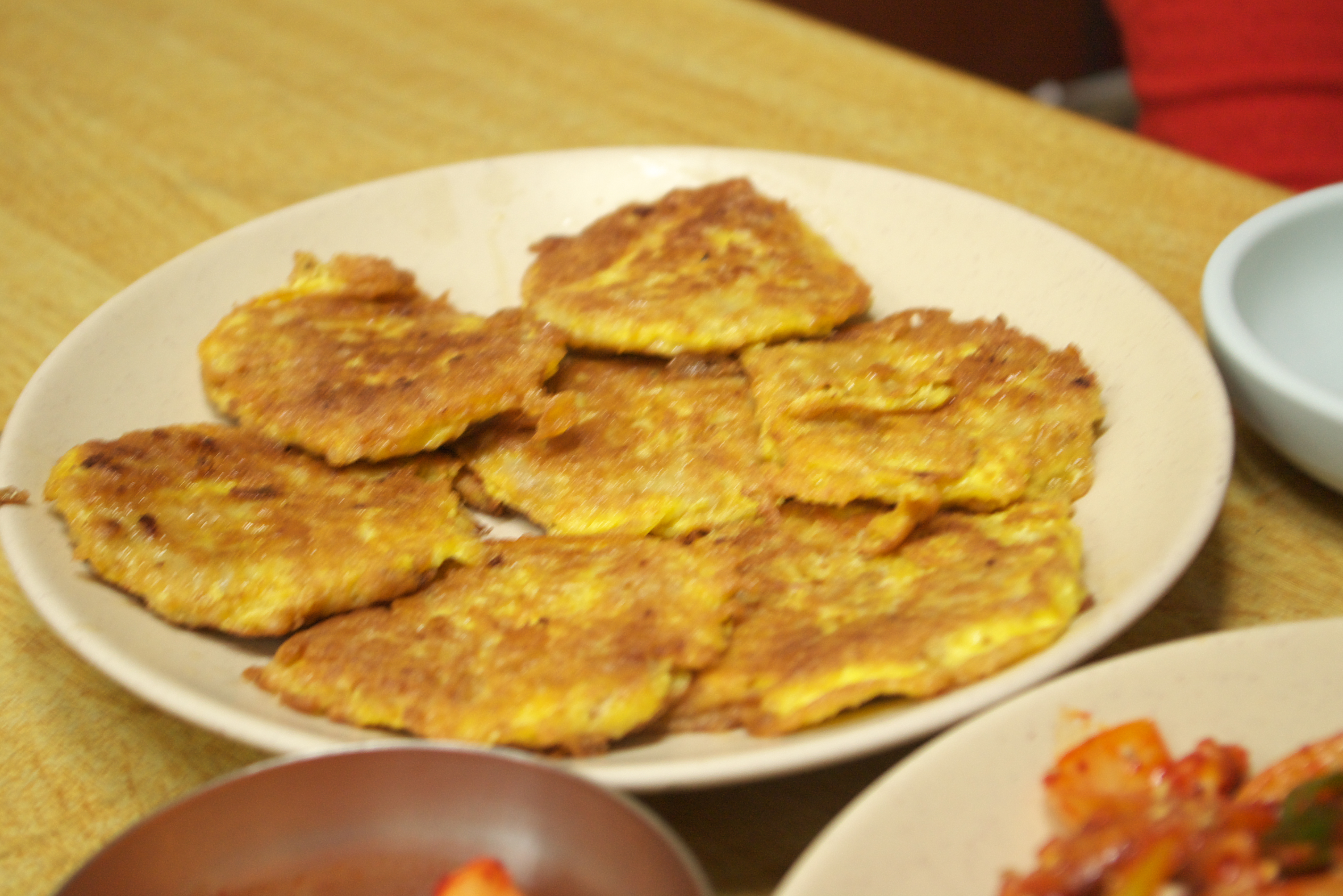 Saengseon jeon, a small pancake-like Korean dish made mostly of eggs and flour, with saengseon (fish).